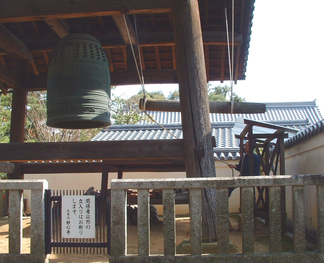 Bell in Myoshin-ji temple, Kyoto Photograph by Gakuro